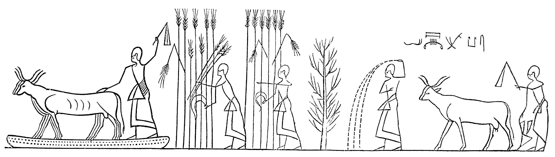 Illustration from "Illustrerad verldshistoria utgifven av E. Wallis. volume I": The dead is ploughing, sowing, harvesting and threshing on the field of Aalu in the underground. (Chapter 110 in the Book of the Dead)